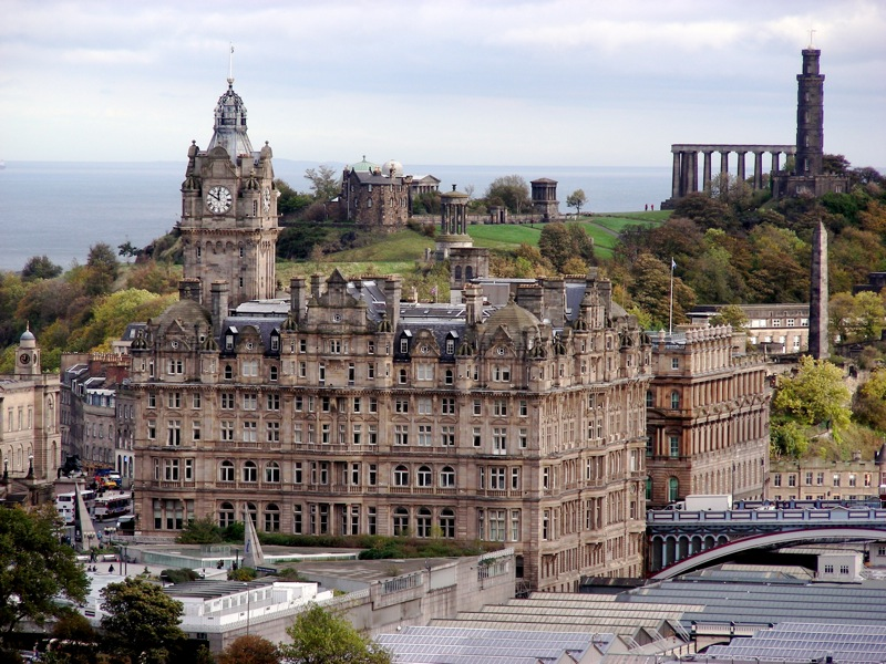 It has been the capital of Scotland since 1437 and is the seat of the Scottish Parliament. Edinburgh was one of the major centres of the enlightenment (see also Scottish Enlightenment), led by the University of Edinburgh, gaining the nickname Athens of the North. The Old Town and New Town districts of Edinburgh were listed as a UNESCO World Heritage Site in 1995. There are over 4,500 listed buildings within its limits, including around 22,000 listed properties, the most of any city in Britain. In the census of 2001, Edinburgh had a total resident population of 448,624, making it the 7th largest city in the United Kingdom.